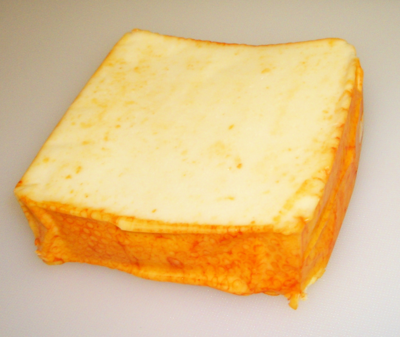 Block of Muenster cheese photographed by brion in my kitchen.